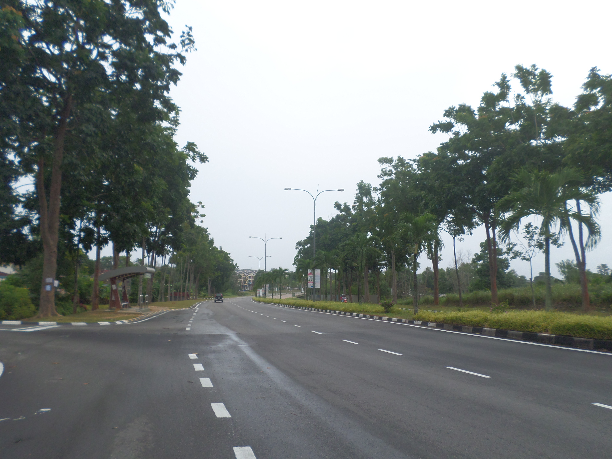 Taman Scientex, Pasir Gudang, Johor Bahru, Johor, Malaysia